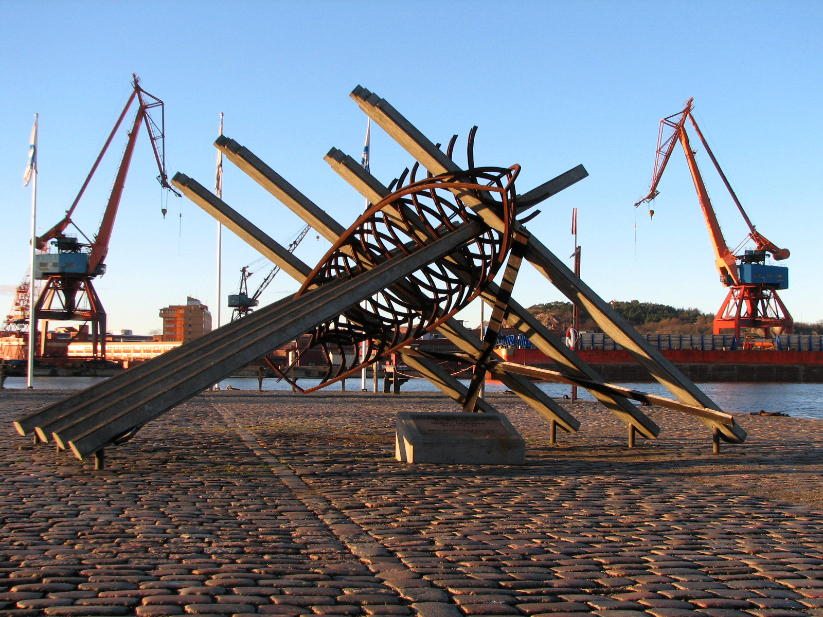 Swedish war sailors memorial by Lars Kleen, placed at Stenpiren in Göteborg, Sweden